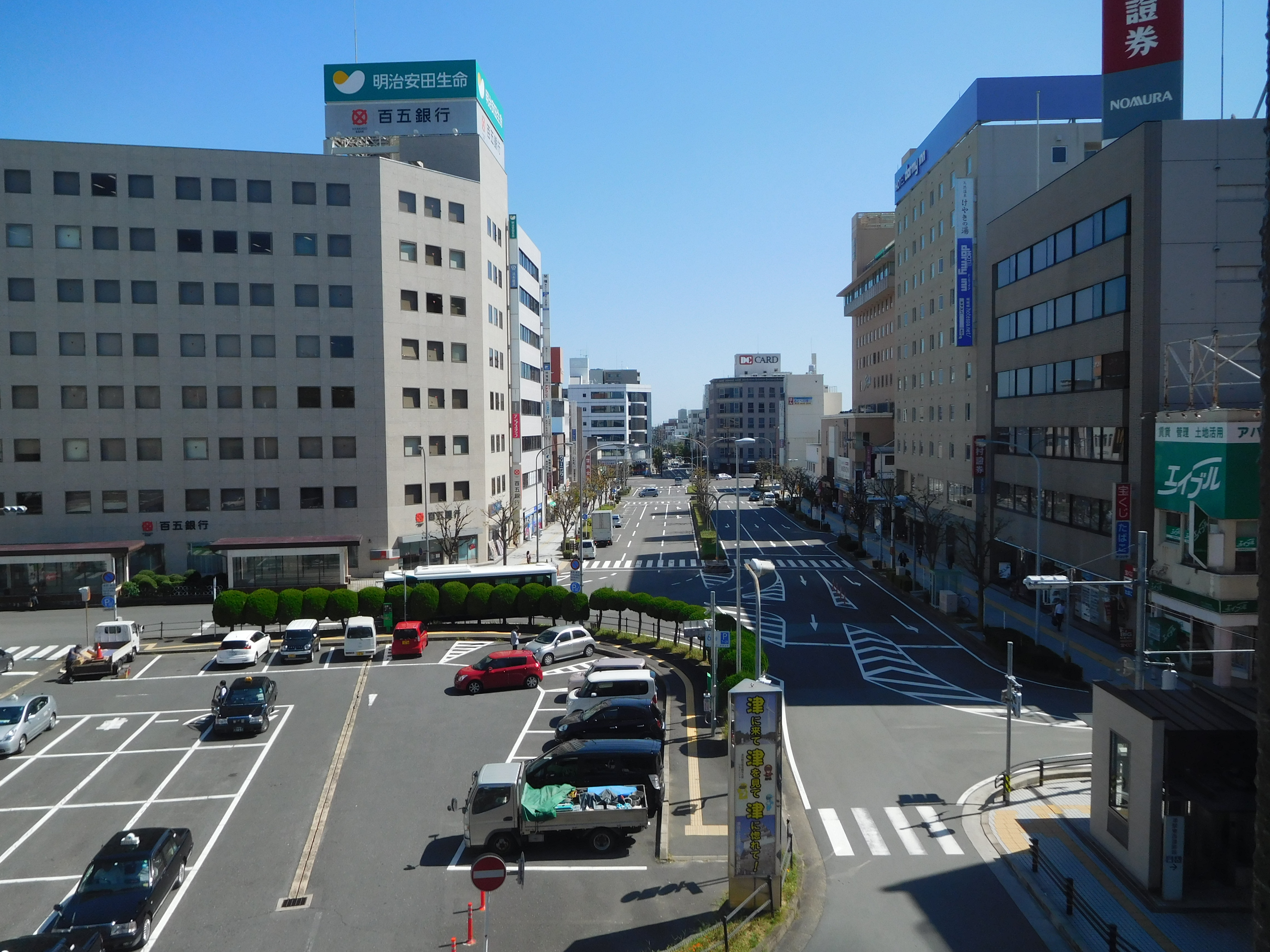 This is the start point of Mie prefectural road No.19 Tsu station line.